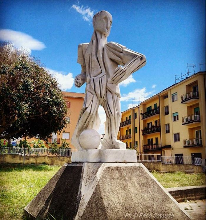 Sculpture "The soccer player", in Carrara marble, by the famous Uruguayan artist Pablo Atchugarry placed at the entrance to the municipal stadium "Guido d'Ippolito" in Lamezia Terme, Italy.